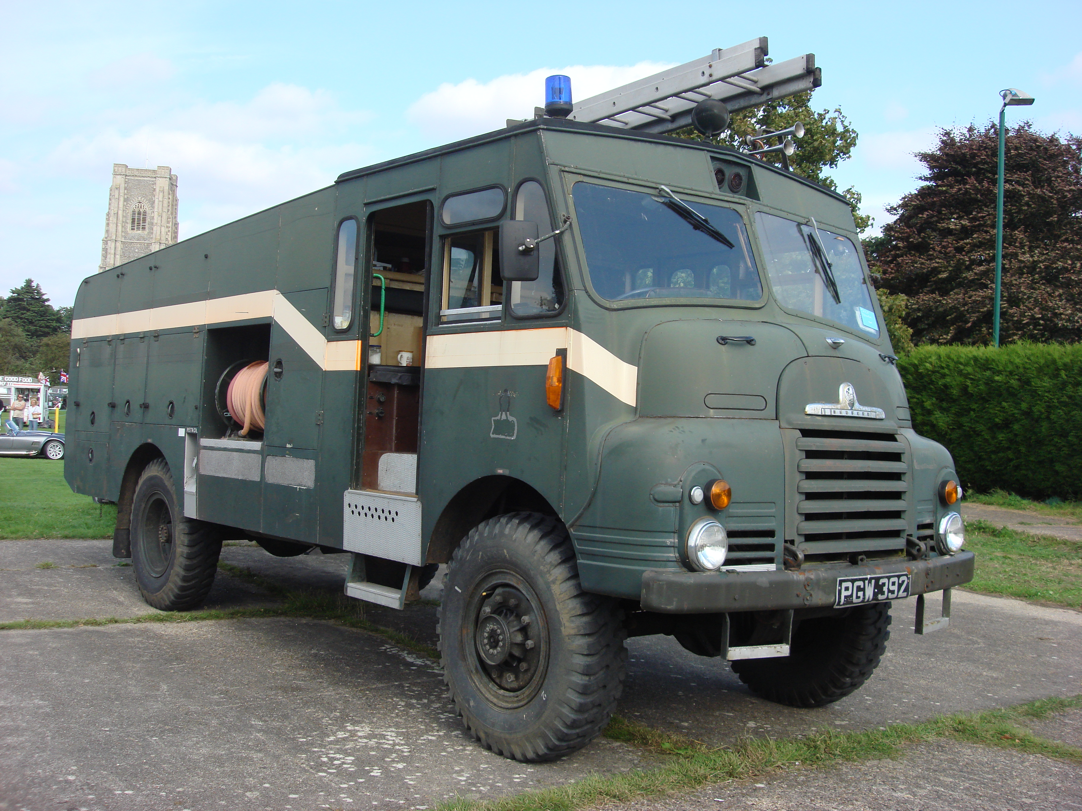 'Green Goddess', or Bedford RLHZ Self Propelled Pump, a fire engine used originally by the Auxiliary Fire Service (AFS), and latterly by the British Armed Forces. These vehicles were built between 1953 and 1956 for the Auxiliary Fire Service. The design was based on a Bedford RL series military truck.